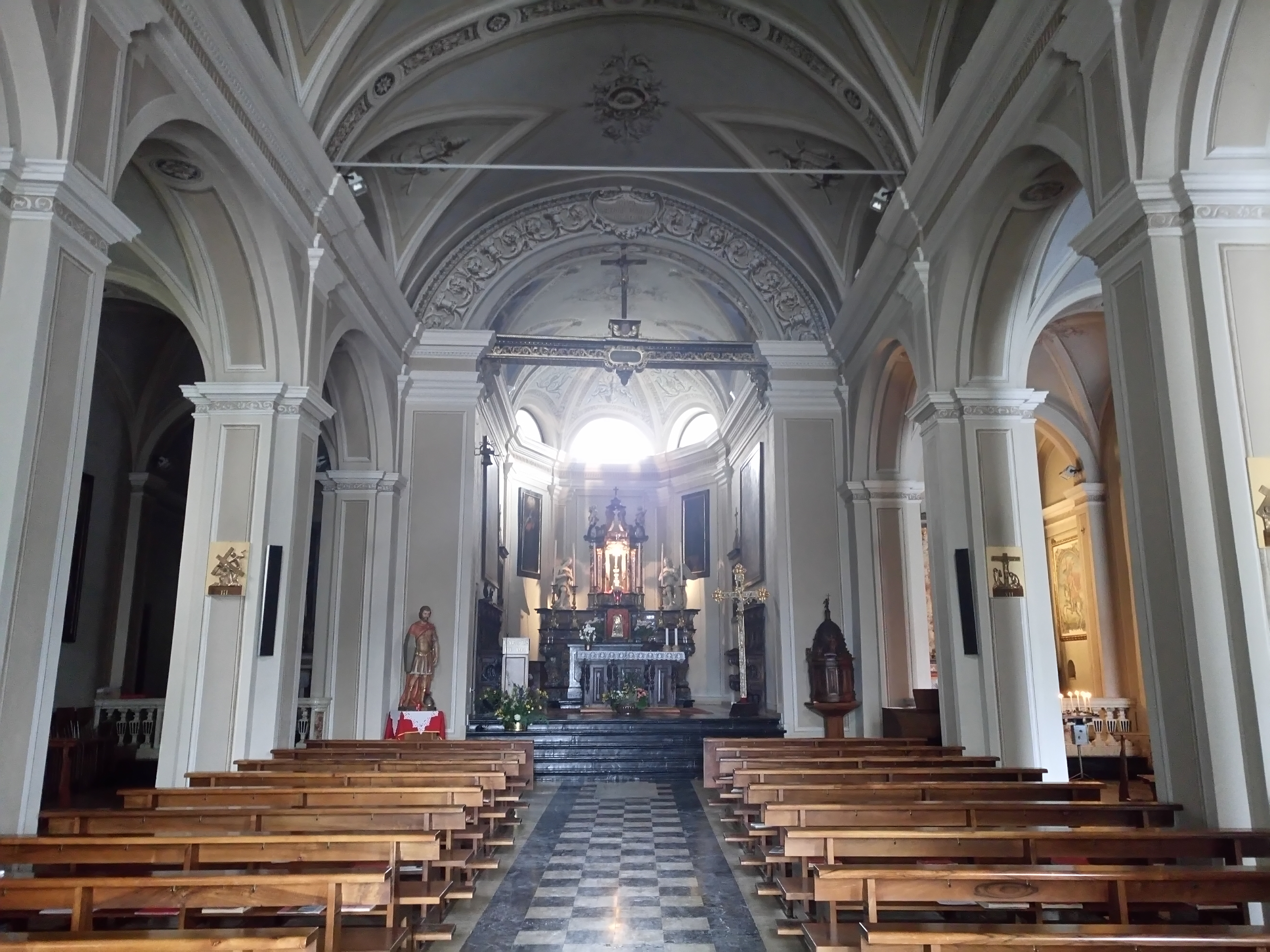 Church of San Vittore in Esino Lario (Wikimania 2016)